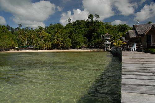 Lianga